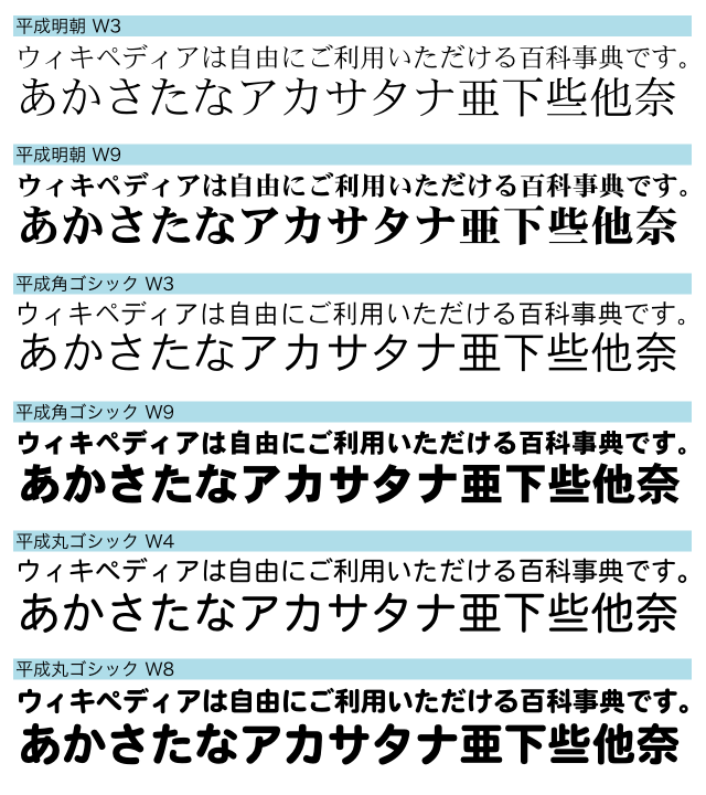 Sample of Heisei Fonts.